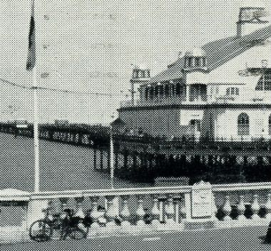 Section from postcard of the third Herne Bay Pier, built 1899. This section shows the stone balustrade taken from London Bridge and used for the entrance of the first Herne Bay Pier in 1832. It was repositioned a few times and by the time of this photo it had been there 100 years. It was removed in 1953 after storm damage. Its present whereabouts are unknown.